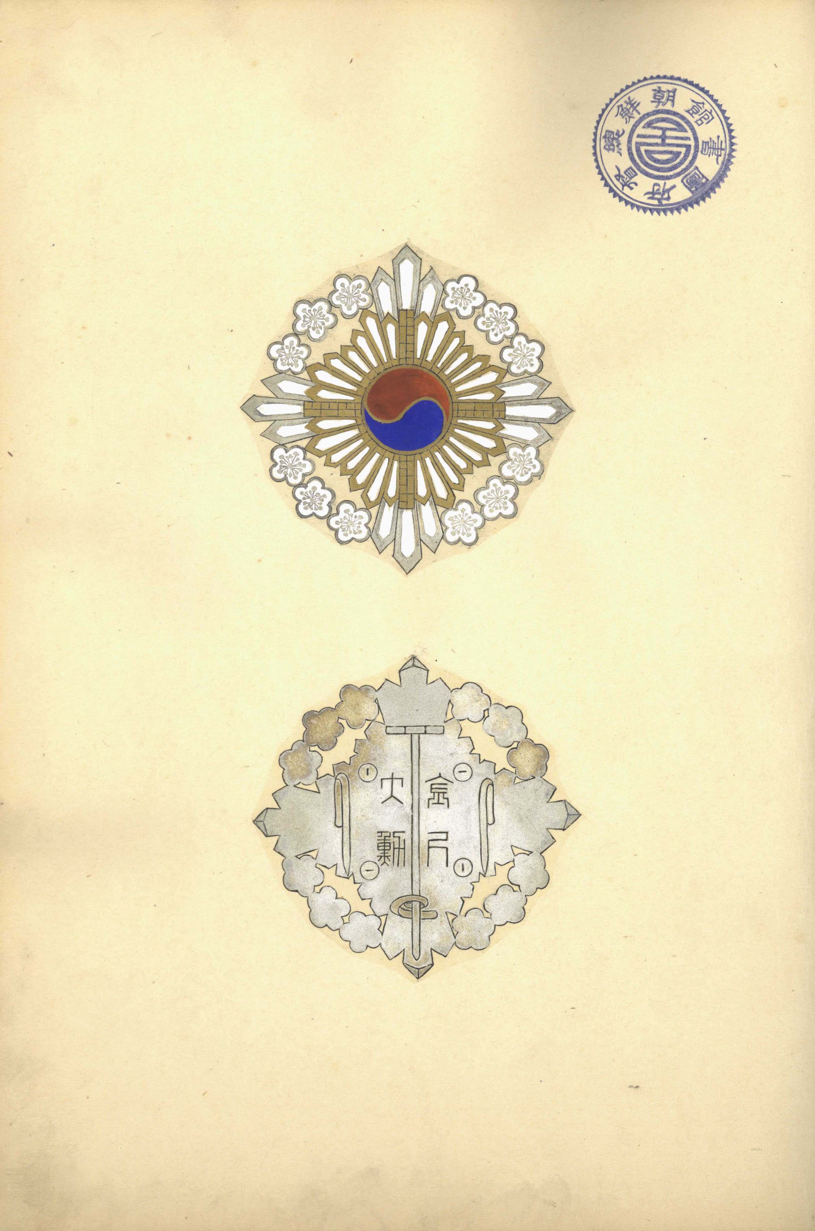 Order of the Gold cheok, Korean Empire